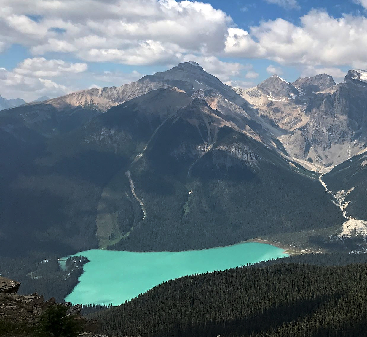 Mount Carnarvon seen with Emerald Lake from shoulder of Mount Burgess. Yoho National Park, Canada